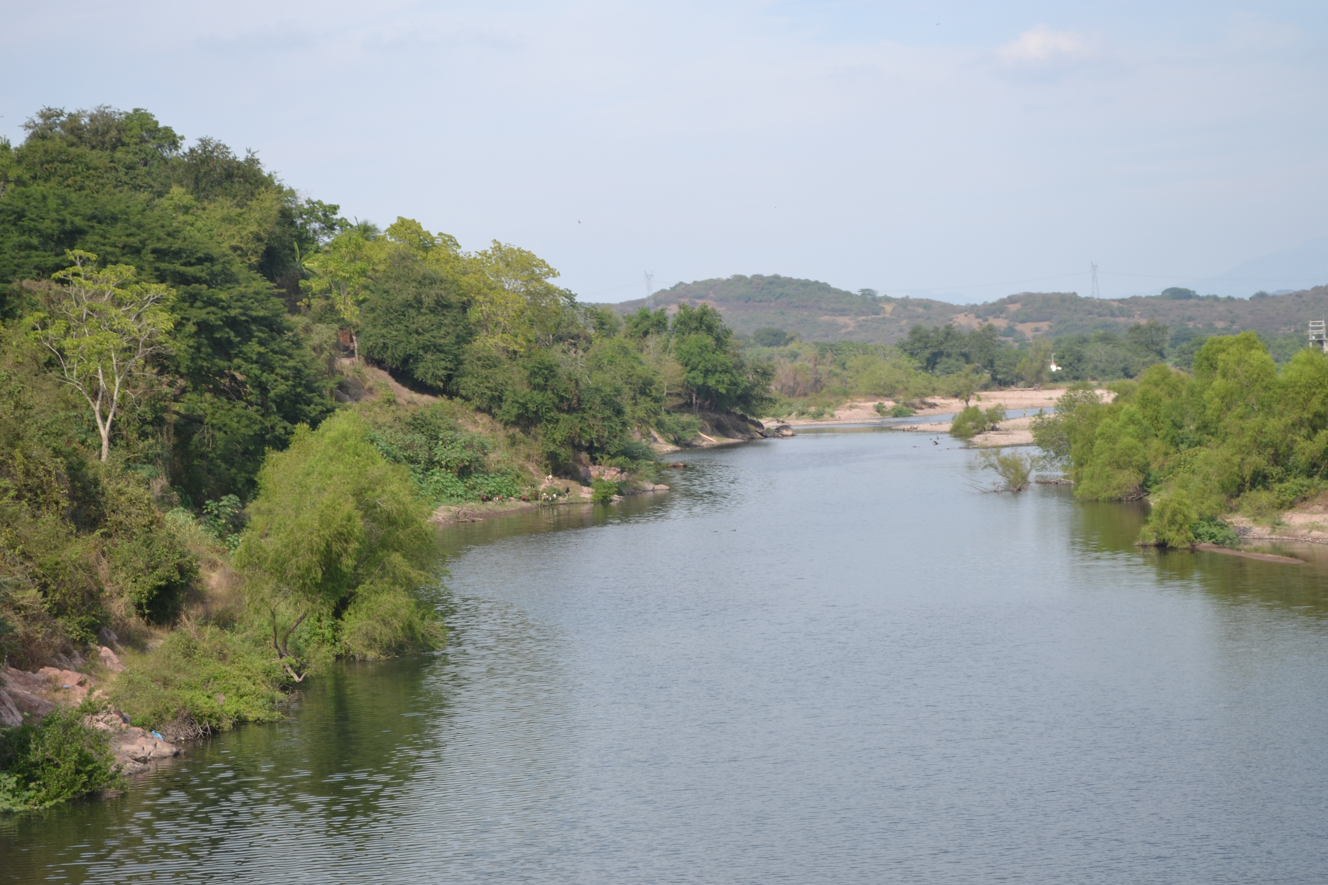 Acaponeta river Mexico, near ?.